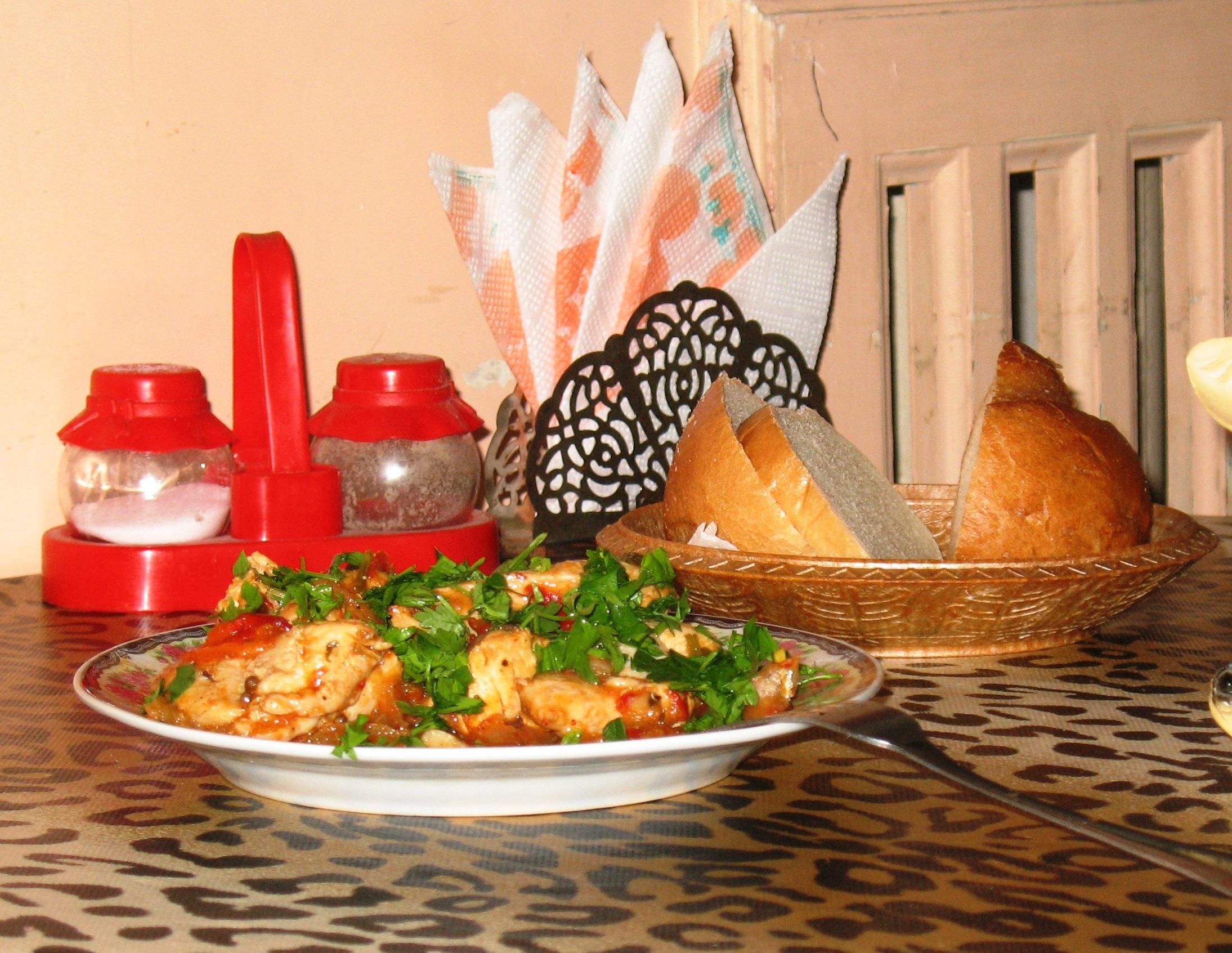 Georgian cuisine: chahohbili. Kharkov.